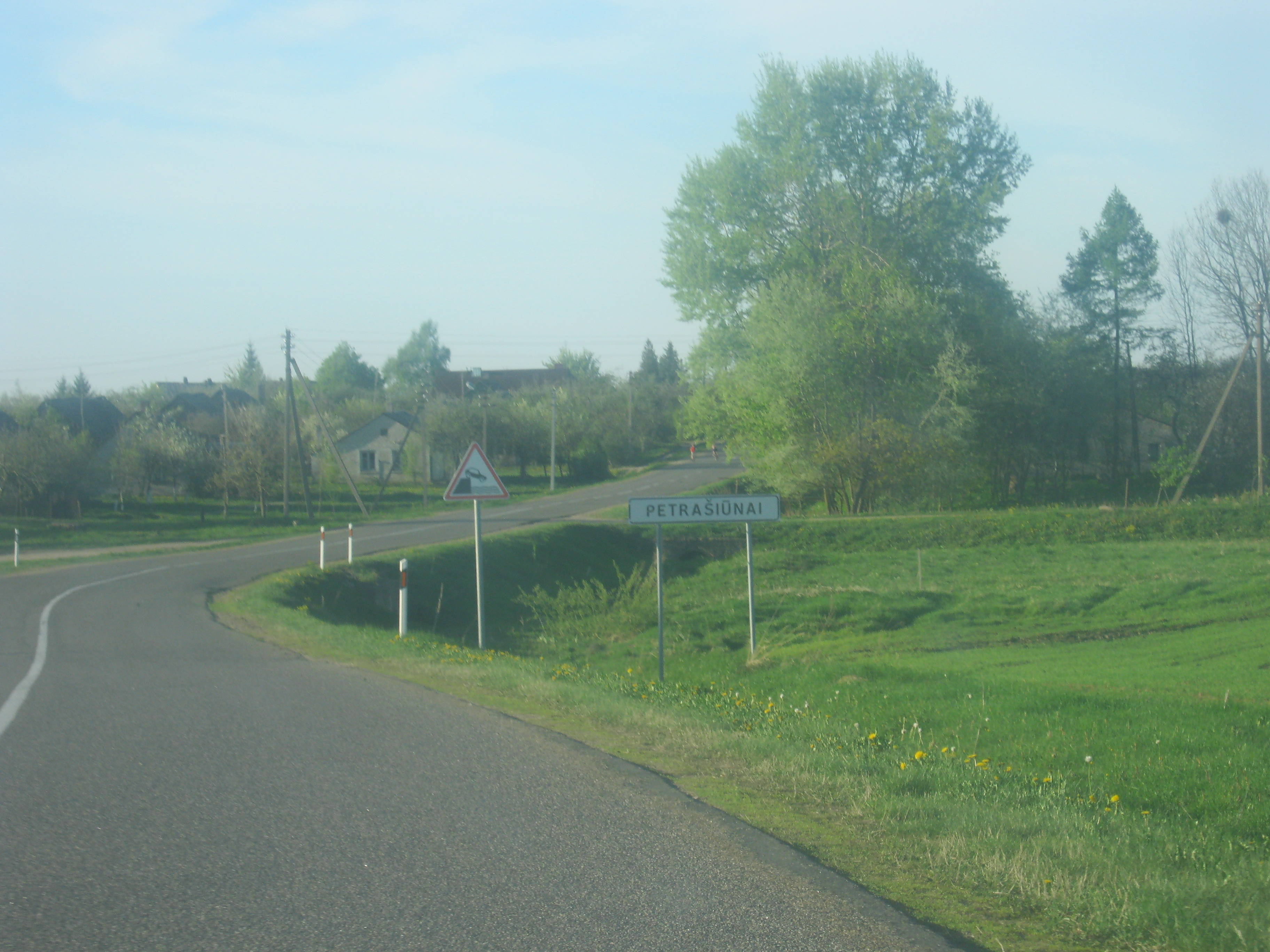 Petrašiūnai, Jonava district